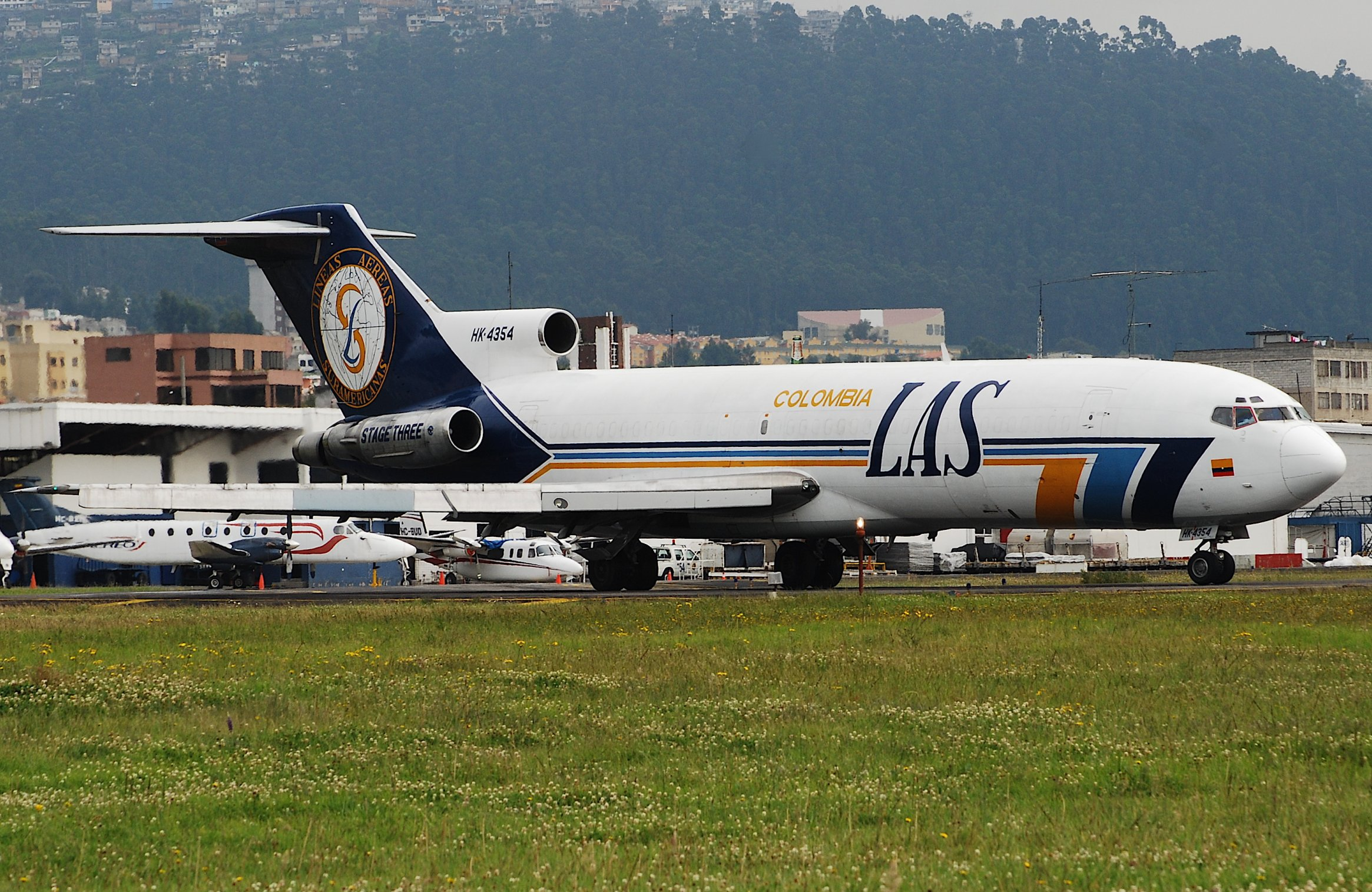 Lineas Aereas Suramericanas Boeing 727-2X3(F); HK-4354@UIO;22.06.2008/514bn